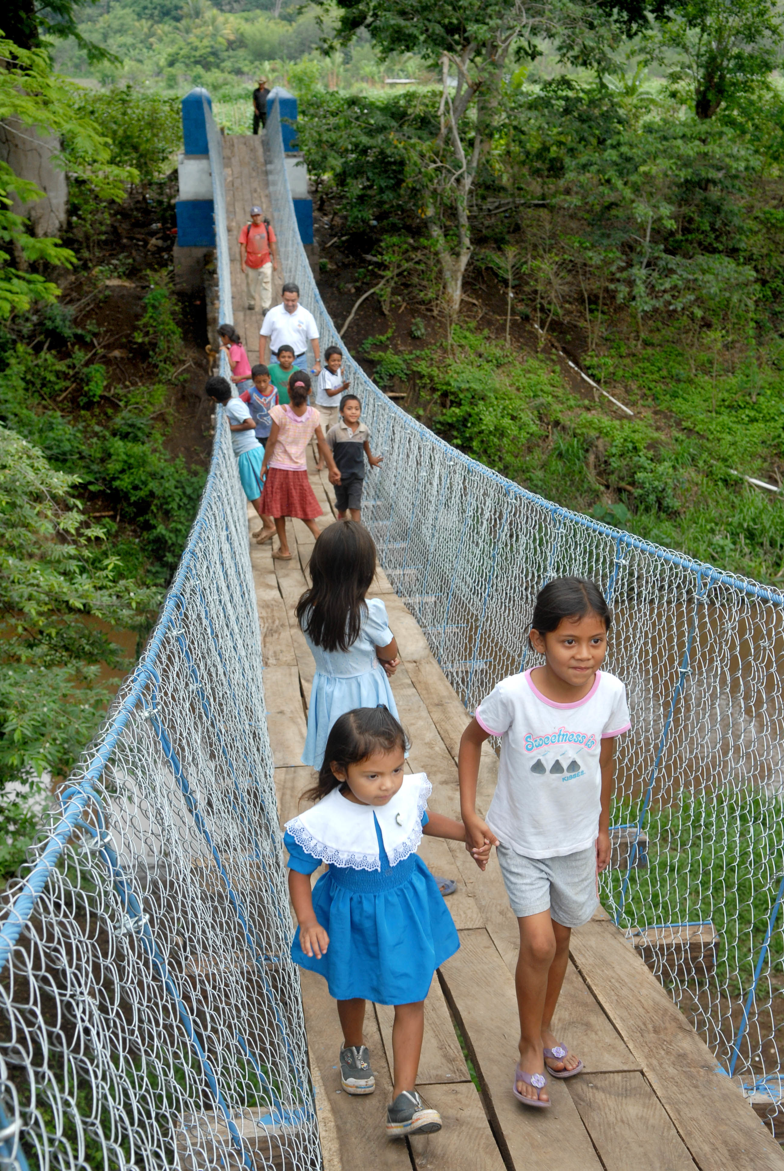 Children cross footbridge in El Salvador